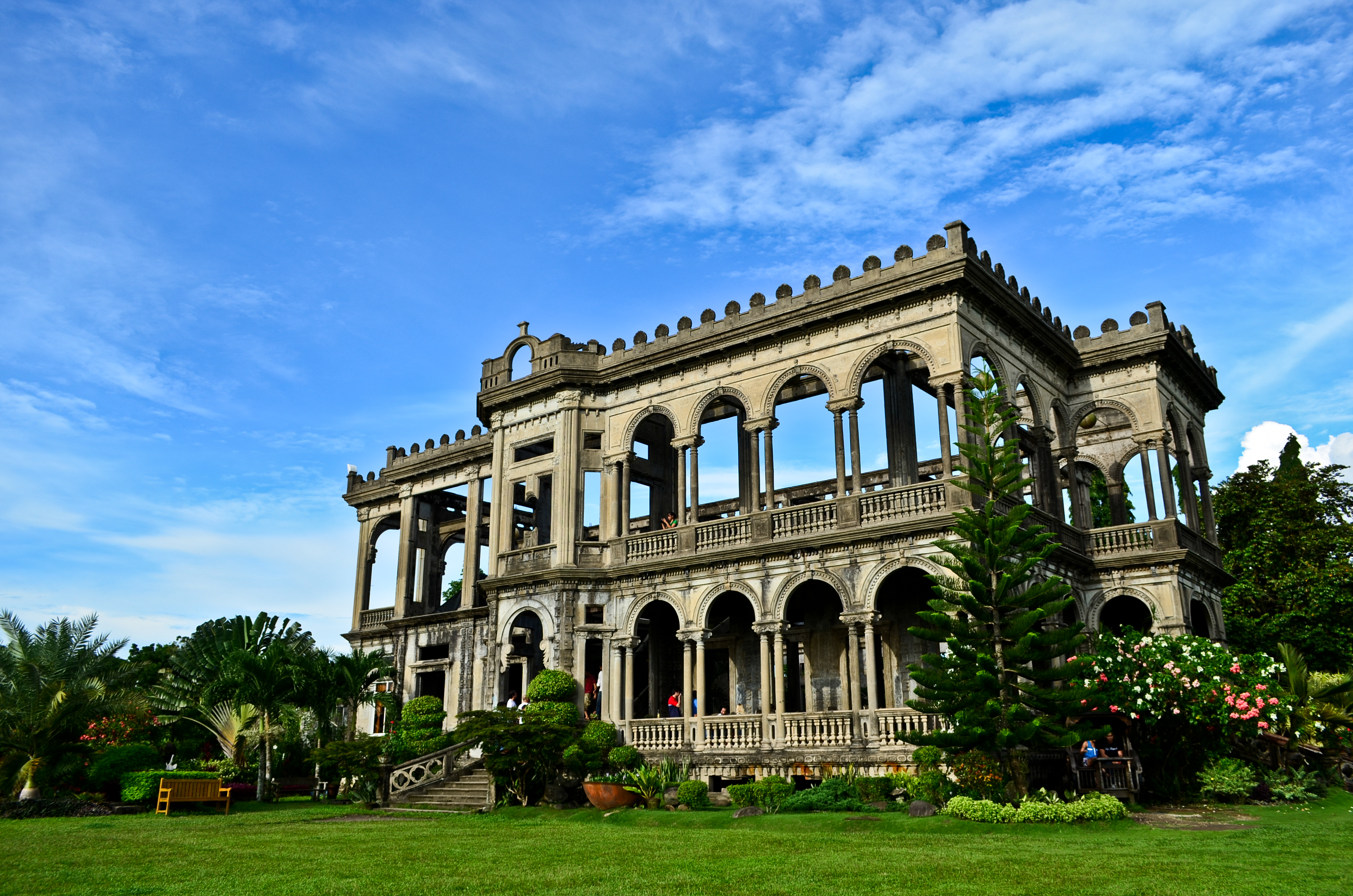 For the Love of Maria Braga - The mansion was set on fire during the World War II by the guerrillas to prevent the Japanese forces to use it as their headquarters. Everything burnt down except for the concrete structure.